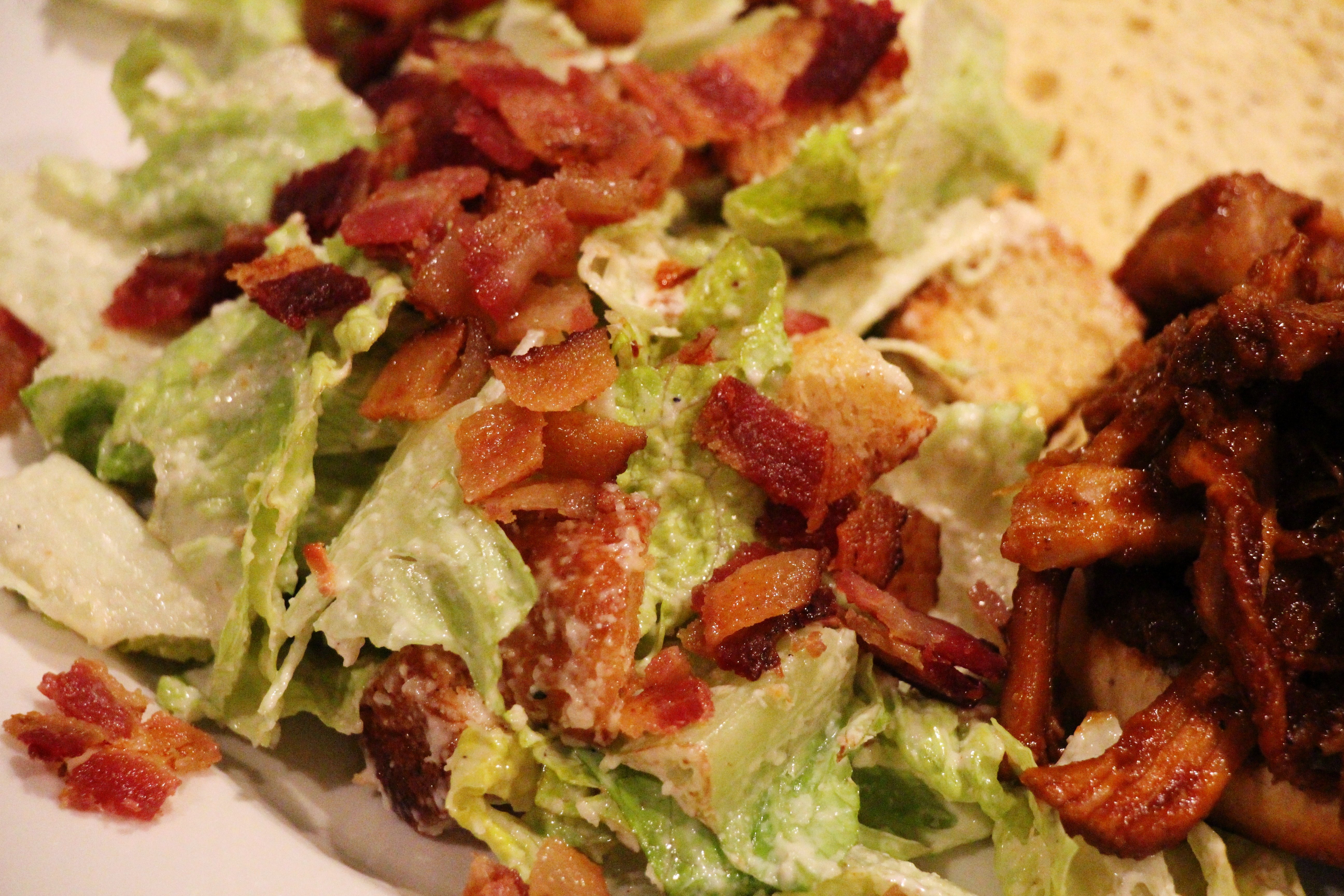 Caesar salad, up close, bacon, croutons, pulled pork in background.